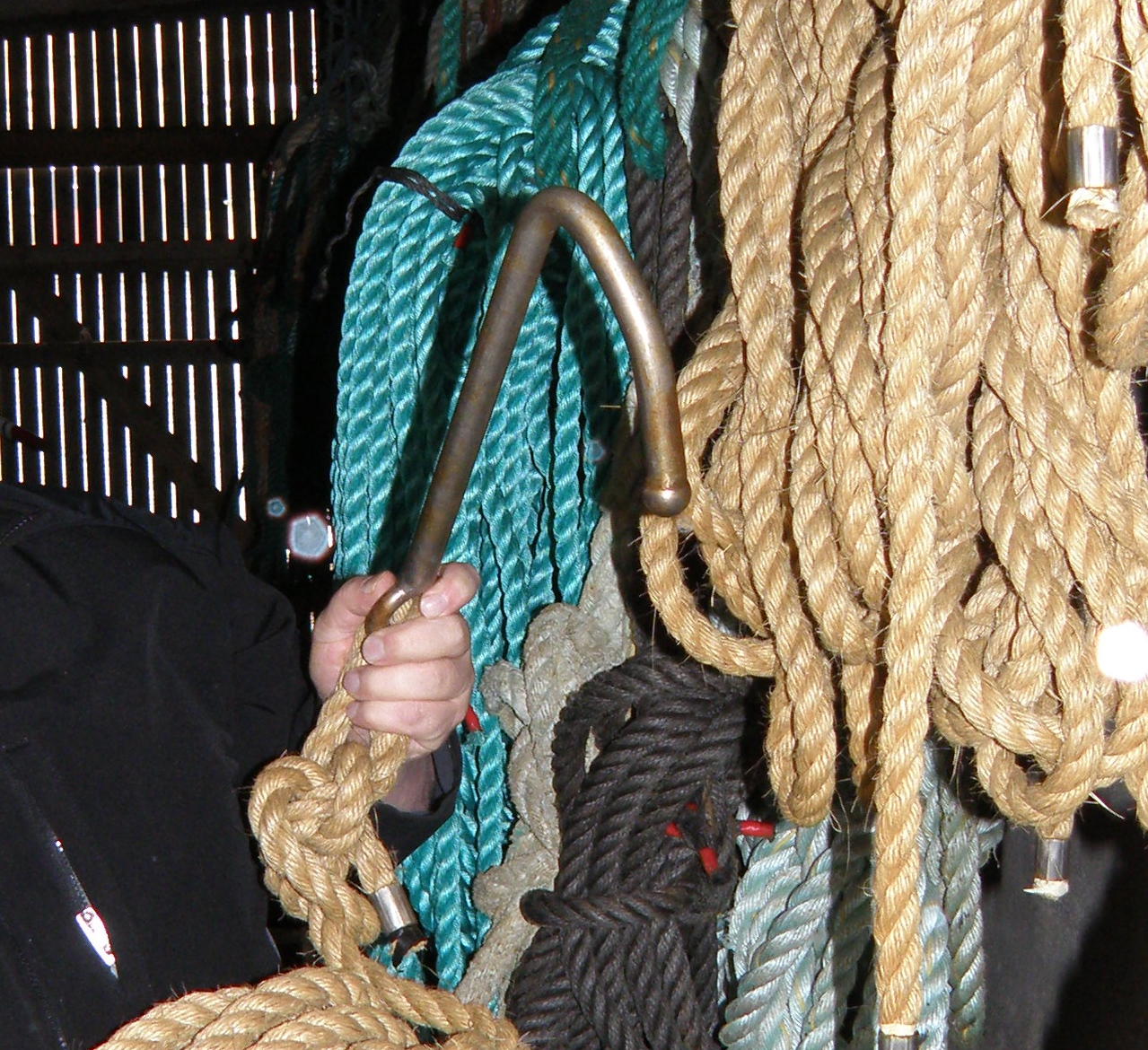 "Blásturongul" is a tool used in the slaughter of pilot whales in the Faroe Islands. The whalers put it in the whales blowhole and drag the whale further up to the beach. The whale is not killed with this tool, it is now killed with a tool called "mønustingari" (spine cutter), which is a kind of spear, with the "spine cutter" the spine is cut and the whale dies. After that the knife can be used (grindakvívur).